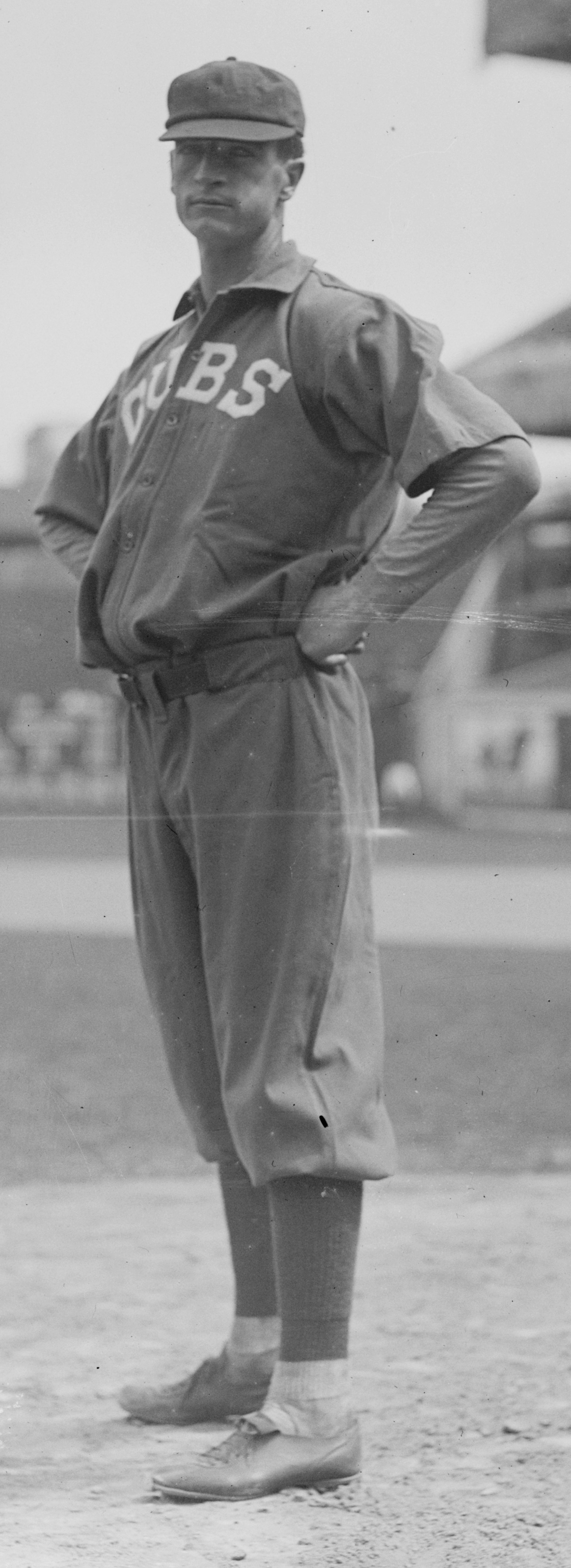 George Pearce, Chicago NL (baseball)